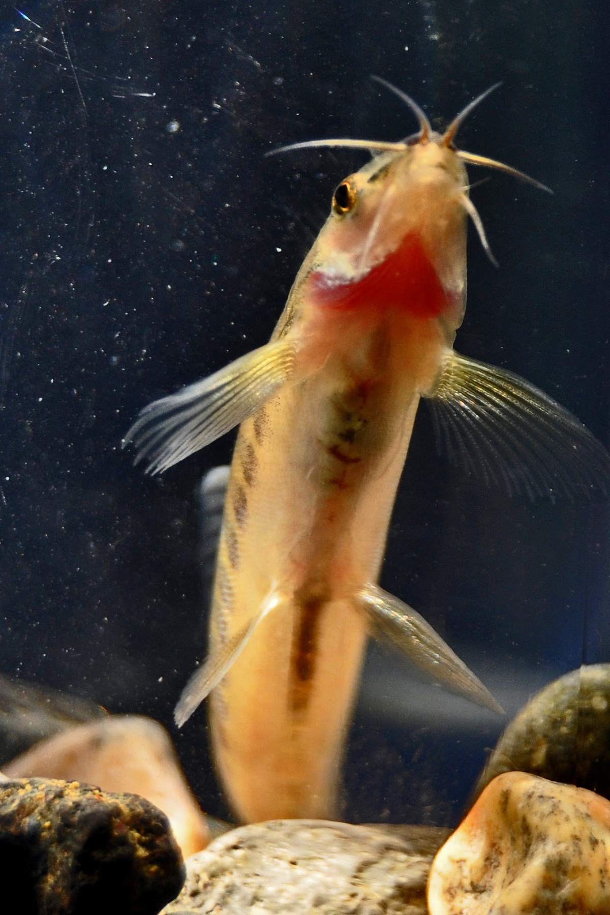 Nemacheilus chrysolaimos, from Cihideung Hilir, Bogor, West Java, Indonesia.